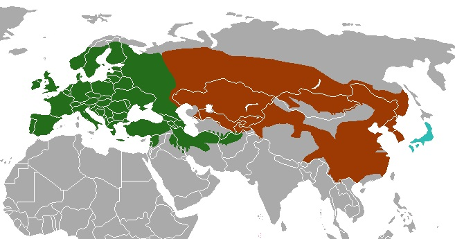 Badger genus, Meles, range map. Green= European badger (Meles meles) Red= Asian badger (Meles leucurus) Real = Japanese badger (Meles anakuma)